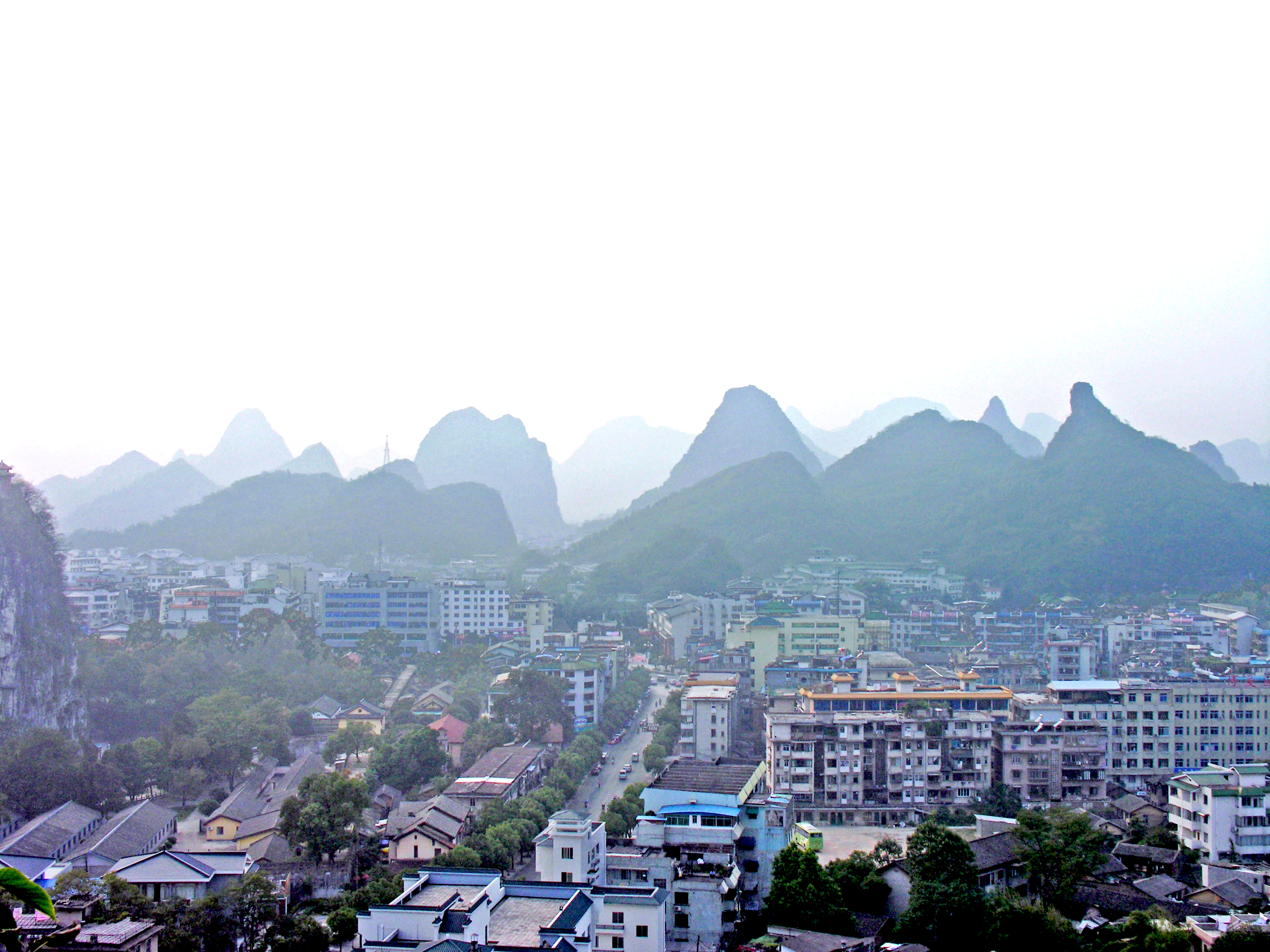 Views from the top of Fubo Hill.